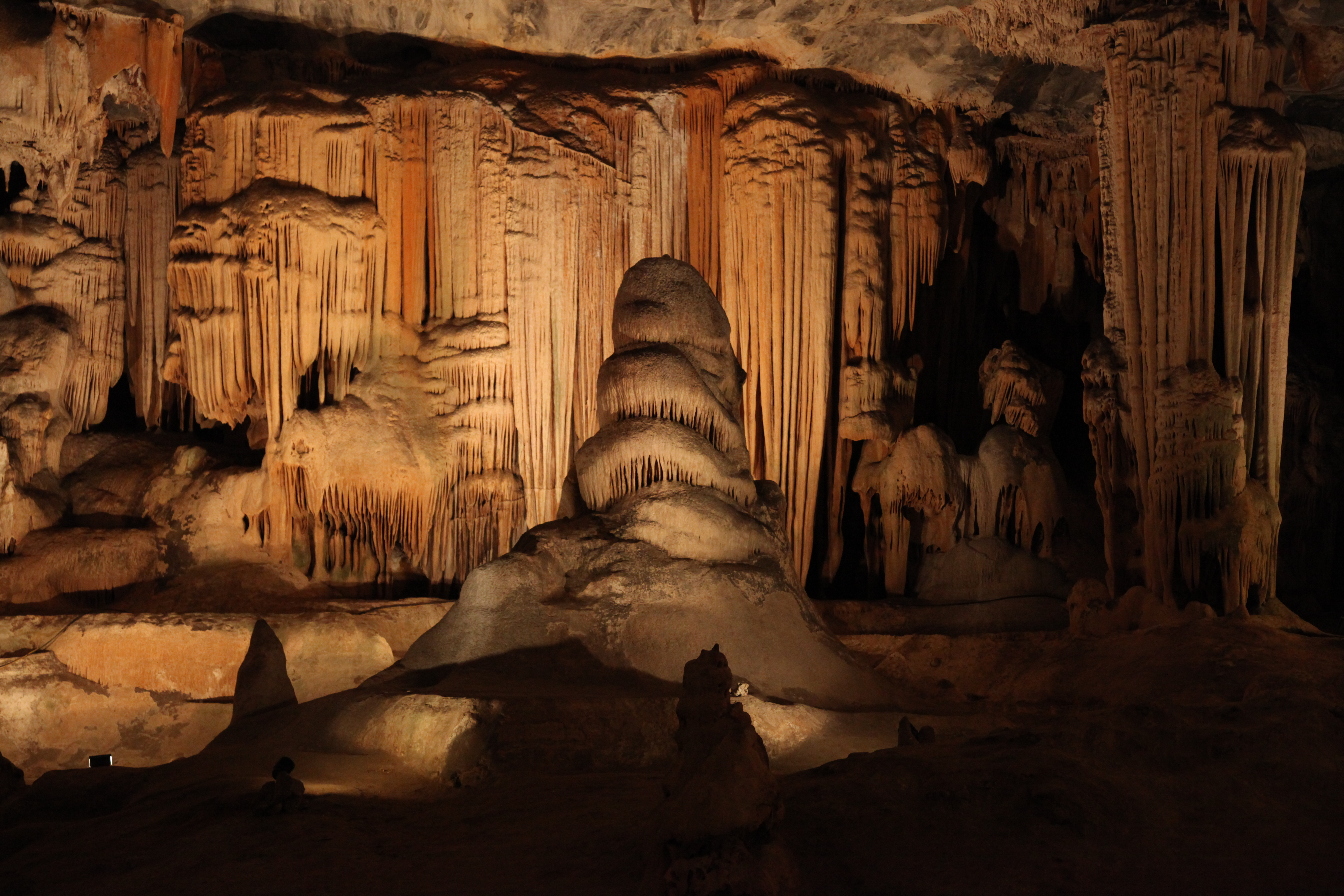 Stalagmites and stalactites Van Zyl hall of the Cango Caves, in the Swartberg, South Africa